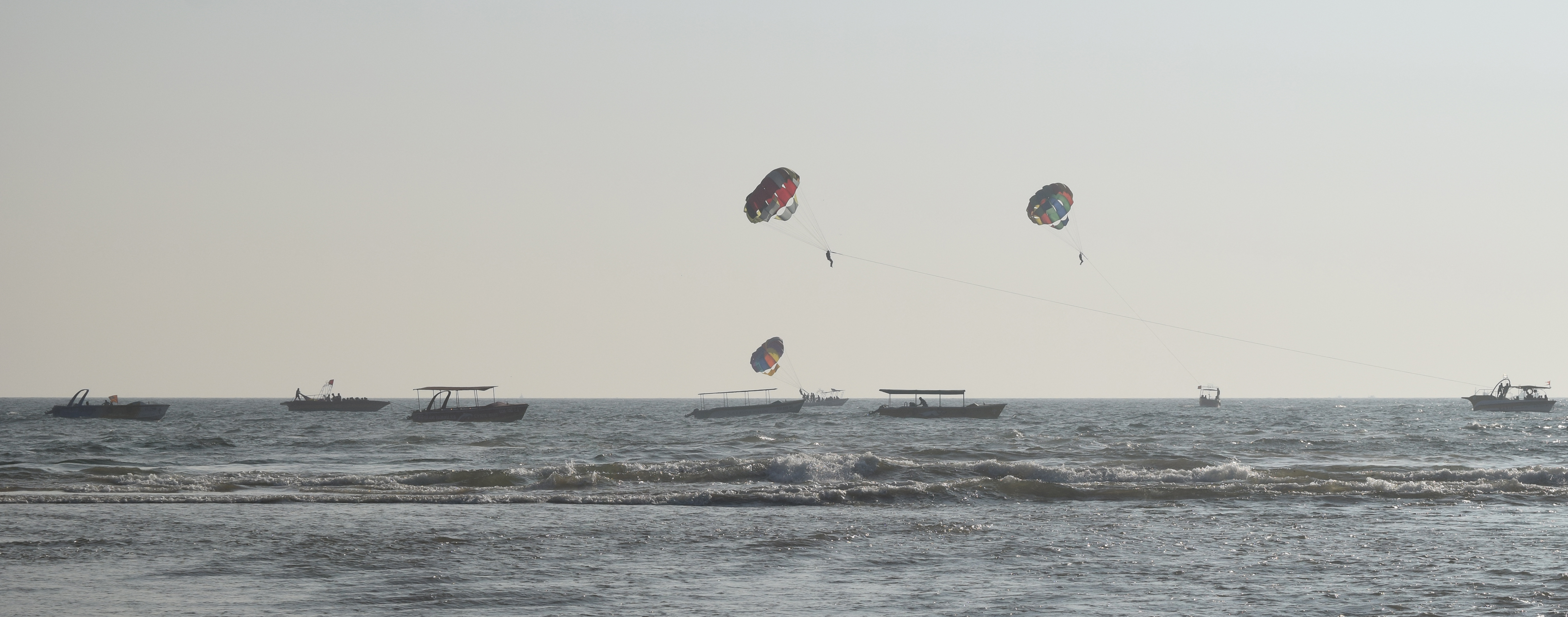 Parasailing in Baga, Goa